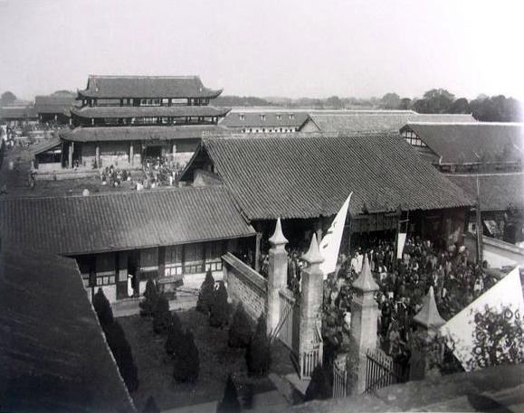 Huangchengba(Sichuanese: Huangcenba).